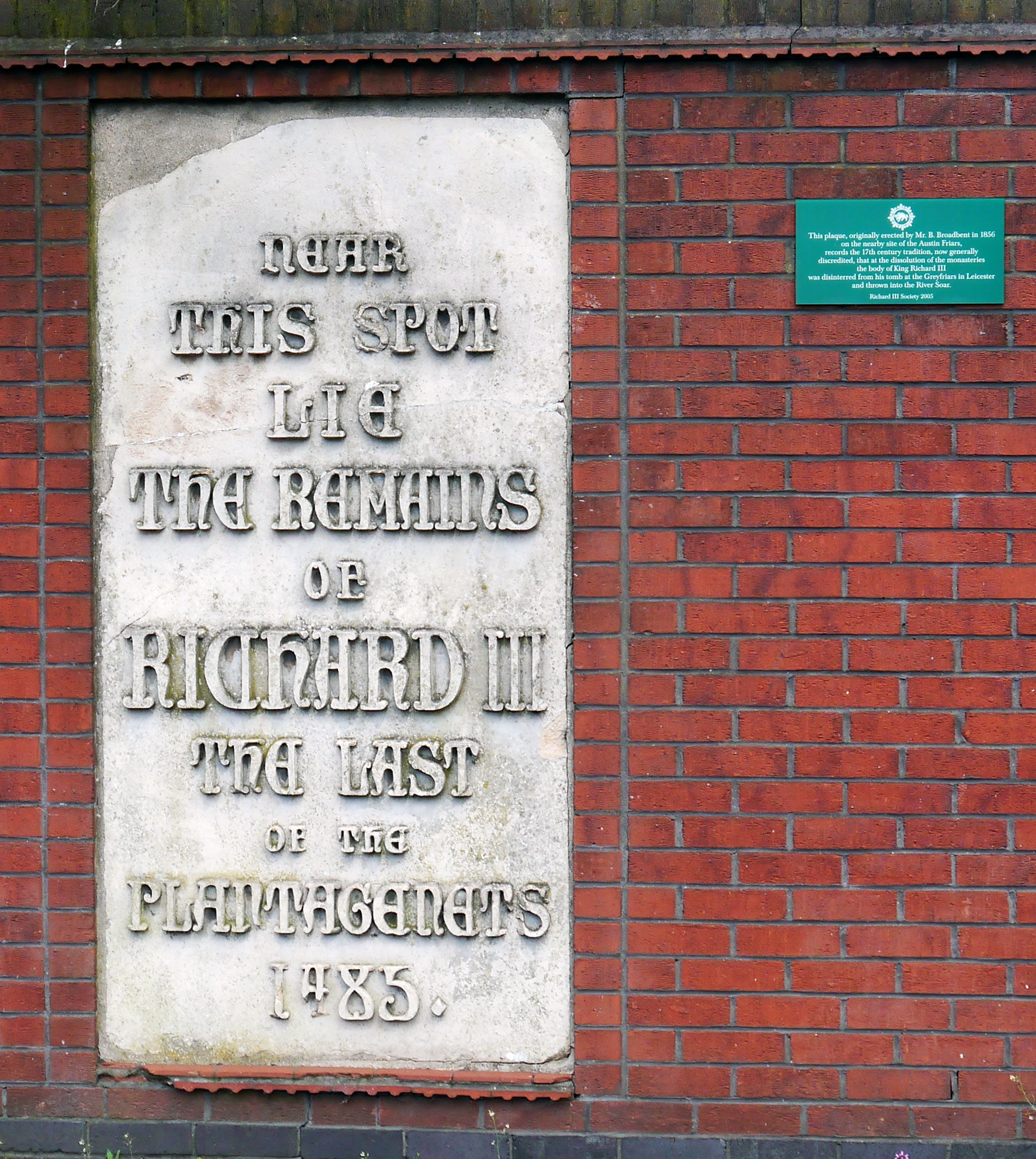 The big plaque reads: Near this spot lie the remains of Richard III The last of the Plantagenets 1485 The little plaque reads: This plaque, originally erected by Mr. B. Broadbent in 1856 on the nearby site of the Austin Friars, records the 17th century tradition, now generally discredited, that at the dissolution of the monasteries the body of King Richard III was disinterred from his tomb at the Greyfriars in Leicester and thrown into the River Soar. Richard III Society 2005